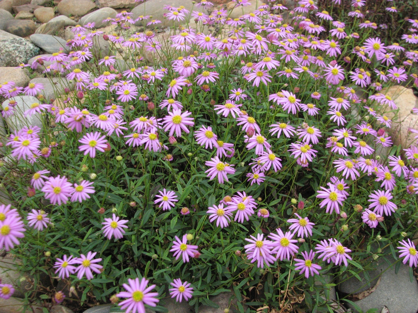 Brachyscome graminea (accession number RBGC 034498), labelled under former name Brachyscome angustifolia at time of photo; (cultivated, labelled) Royal Botanic Gardens Cranbourne, Victoria, Australia